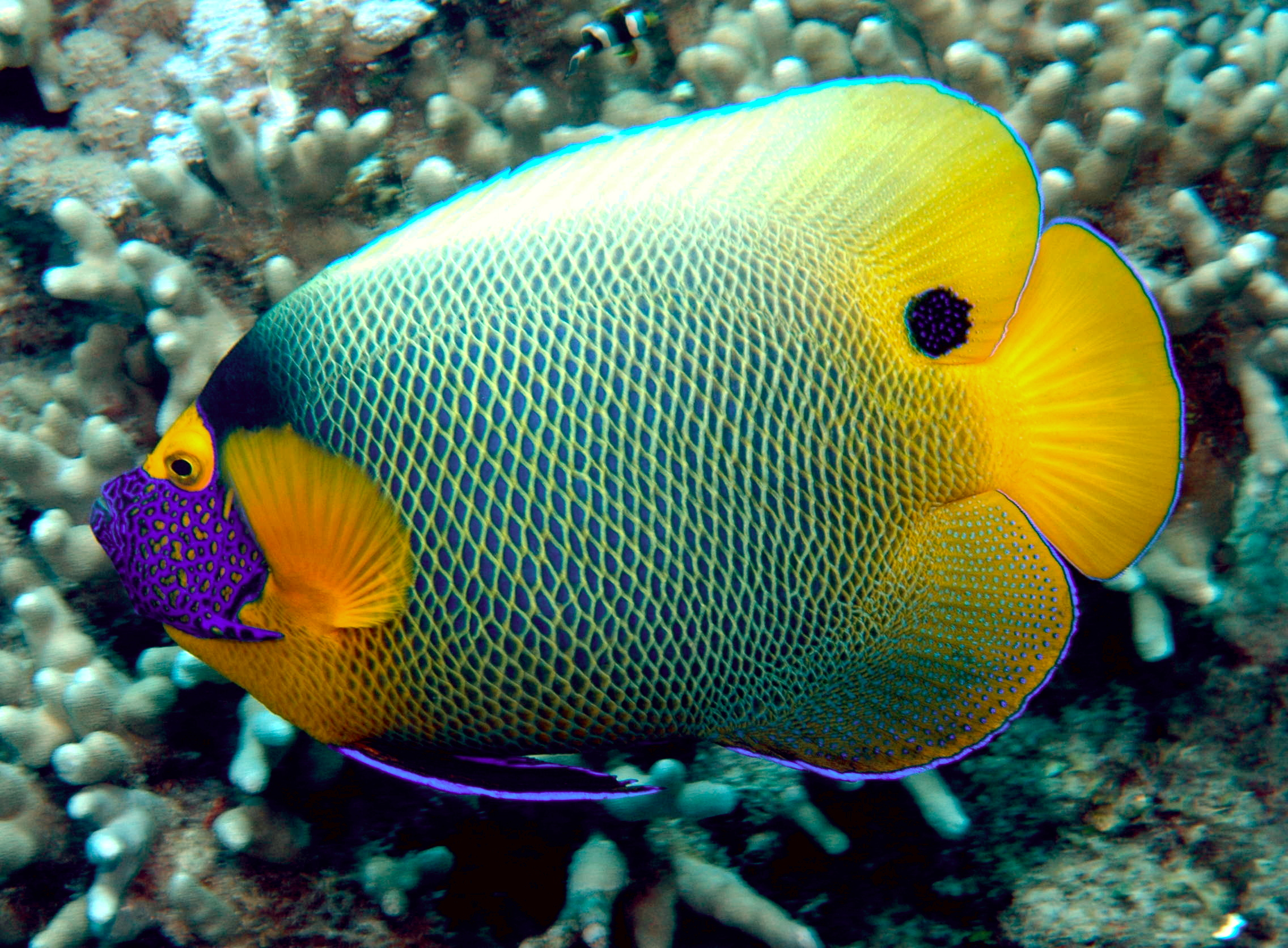 Pomacanthus xanthometoponGreat Barrier Reef, Cairns, Australia